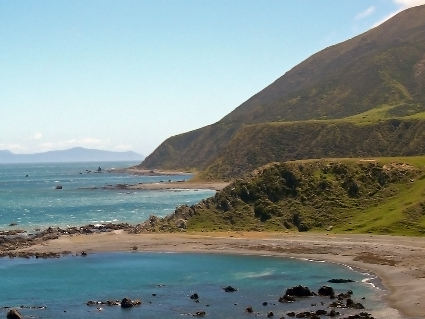 coastline of the Cook Strait at Tongue Point, south of Wellington, New Zealand